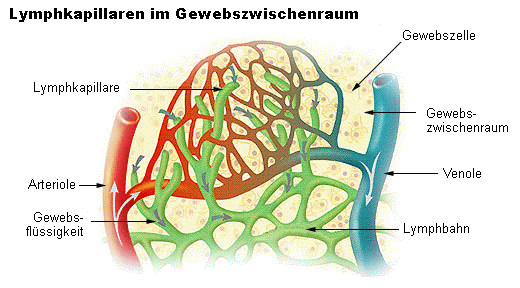 Lymph capillaries in the tissue spaces